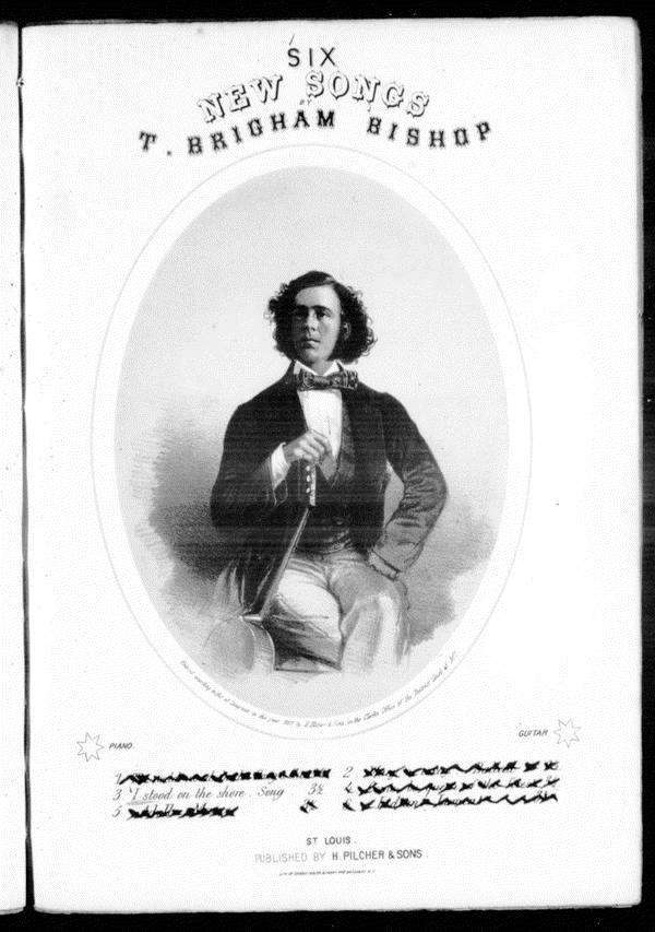 Cover sheet to sheet music by American composer Thomas Brigham Bishop, with portrait of Bishop. from at the Library of Congress